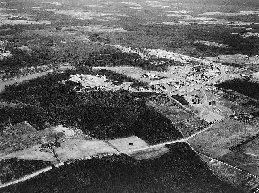 Aerial photograph of Greenbelt, Maryland, USA, March 1937.